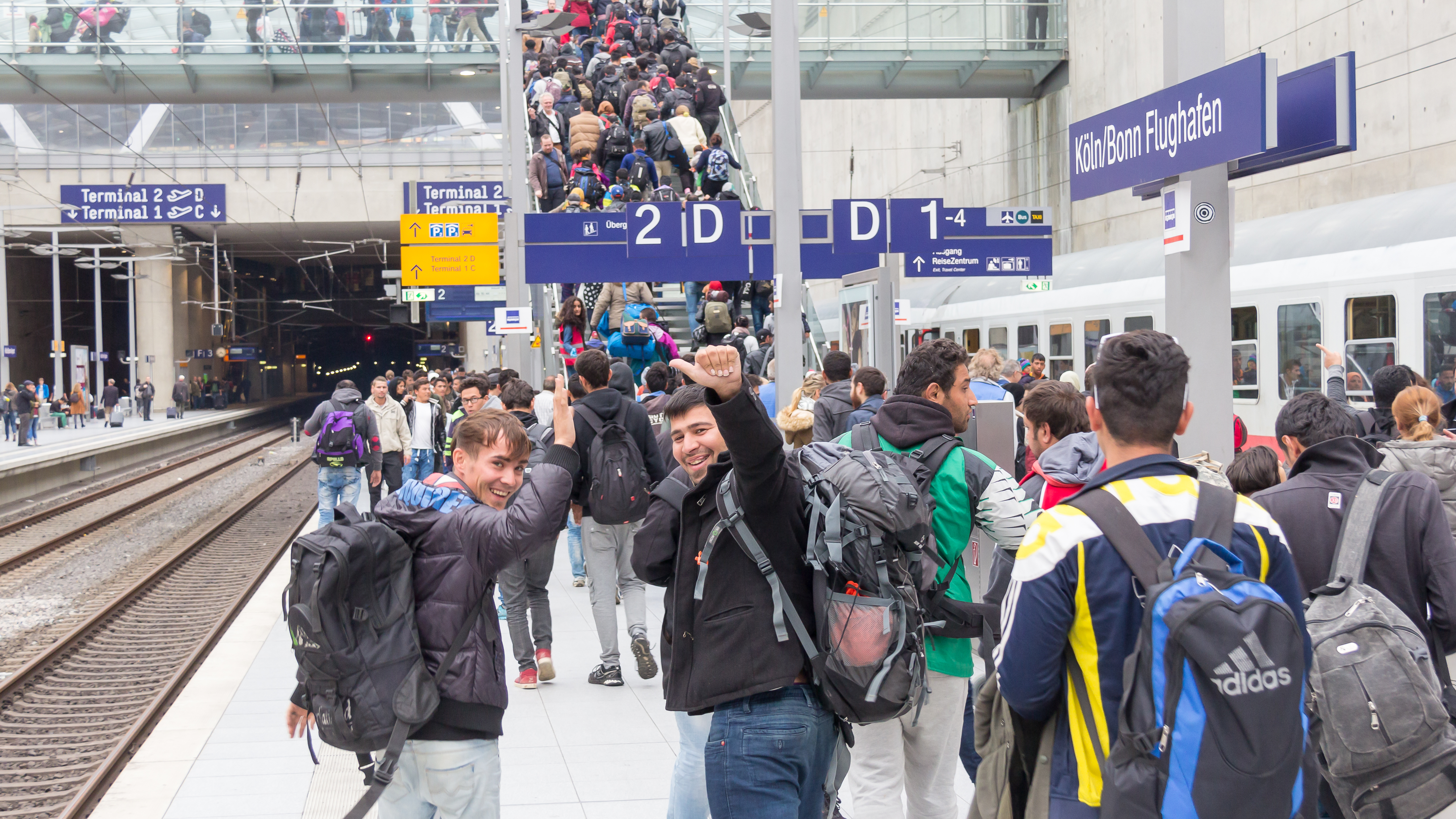 Arrival of refugees with a special train by Deutsche Bahn from the Austrian/German border at the station of Cologe/Bonn airport. In big tents on the ground the refugees can rest and eat, get new clothes and they can charge their smartphones. Medical assistance is available too. After ~ 2 hours the refugess will be transported by busses to buildings of the country of North Rhine-Westphalia